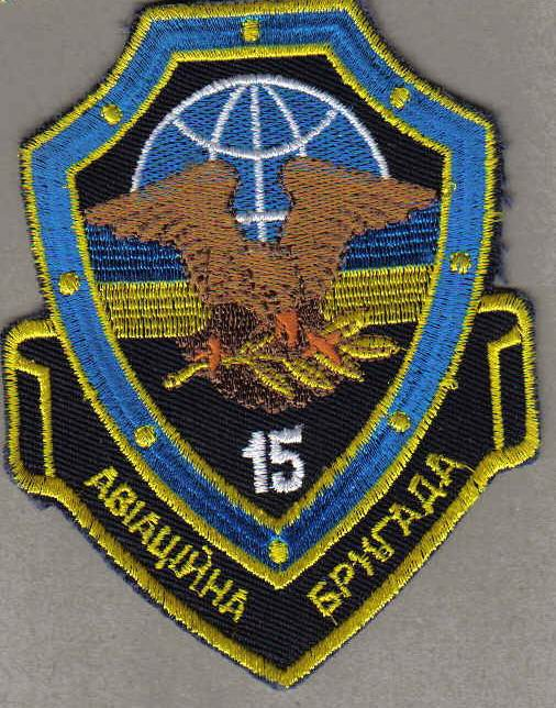 Sleeve patch for 15th Transport Aviation Brigade of Ukrainian Air Force